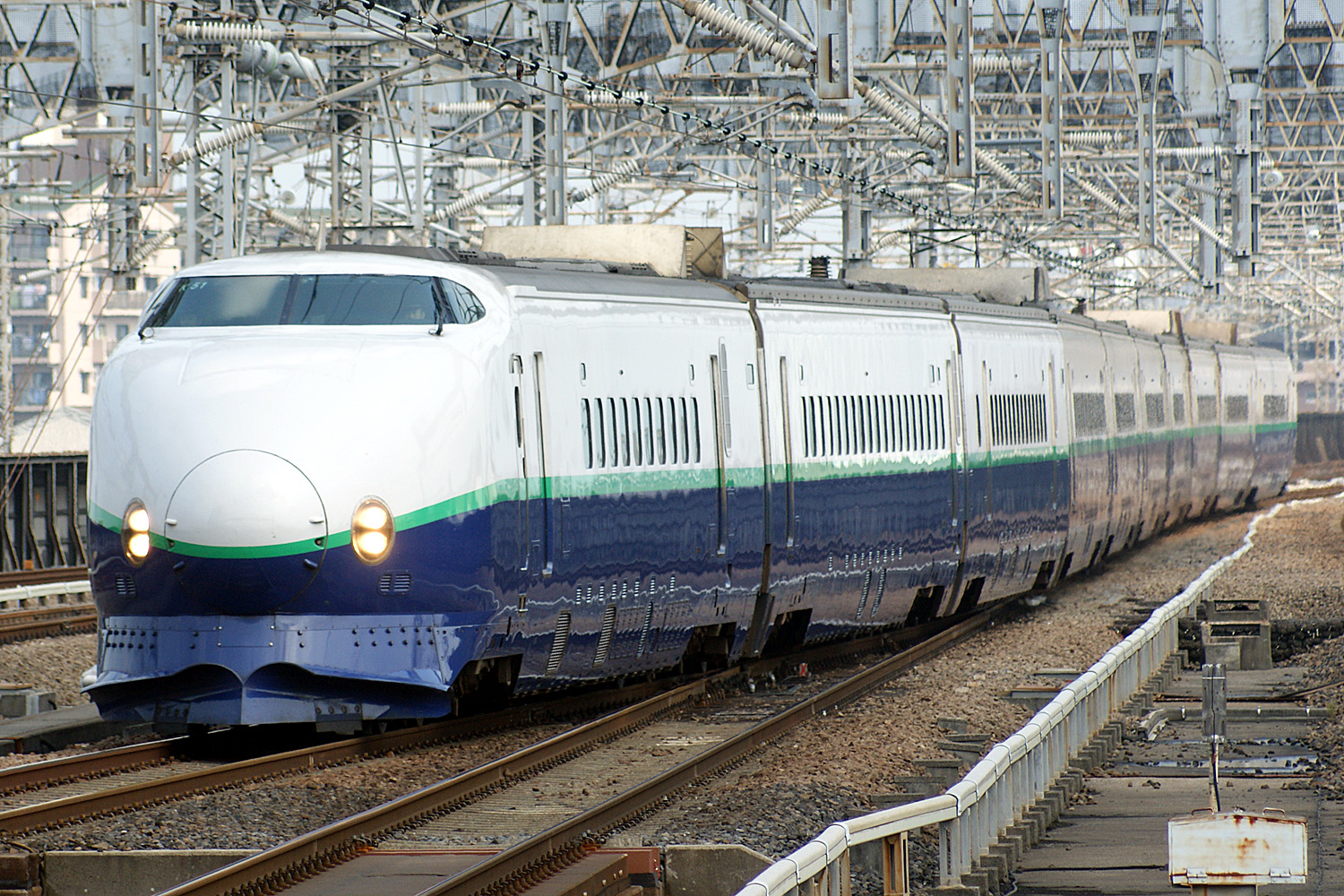 Refurbished JR East 200 series Shinkansen EMU set at Omiya on an up service